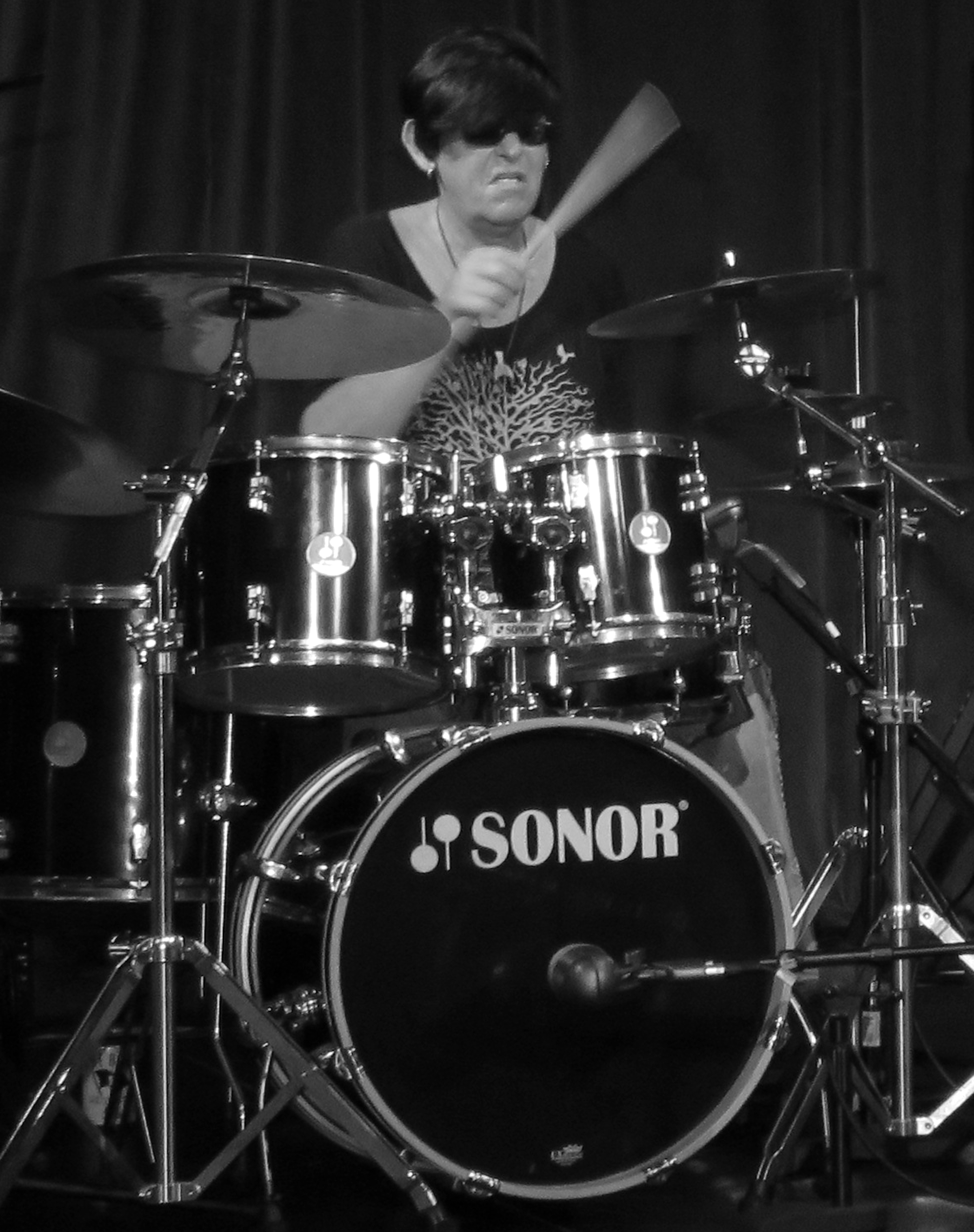 A live photo taken of Billie Davies in October of 2018 during a performance with Billie Davies Trio at the Art Klub in New Orleans.